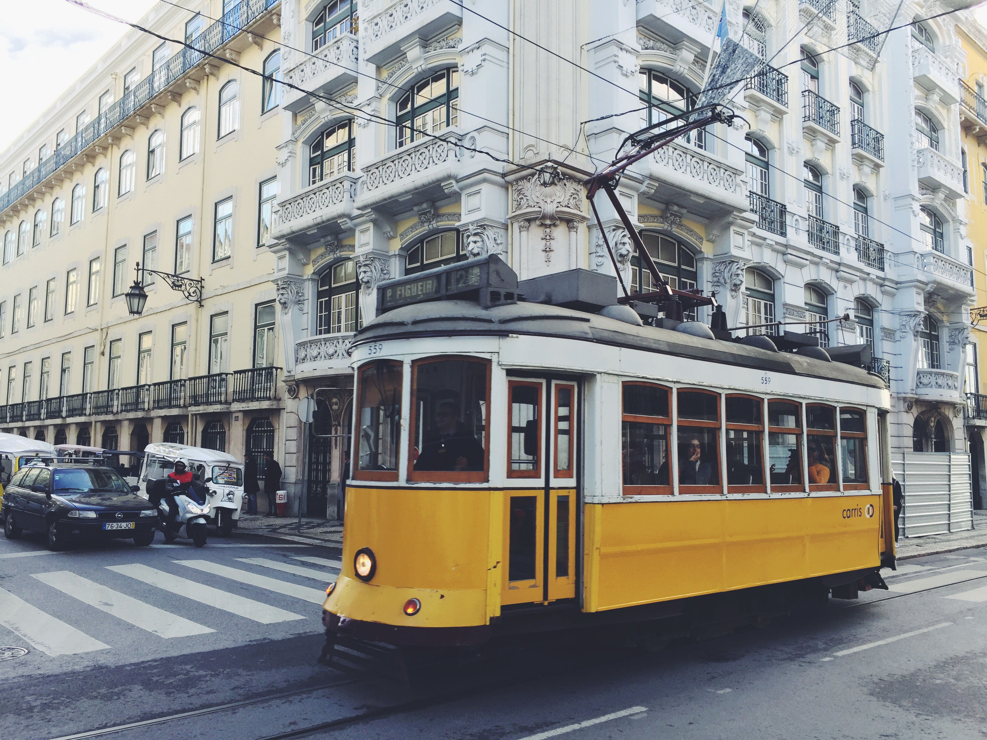 Lisbon, Portugal @ WebSummit 2018